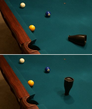 Photo montage illustrating the principle in bottle pool that the shake bottle is righted (upside down) where it falls (as judged by the mouth of the bottle) after being knocked over.